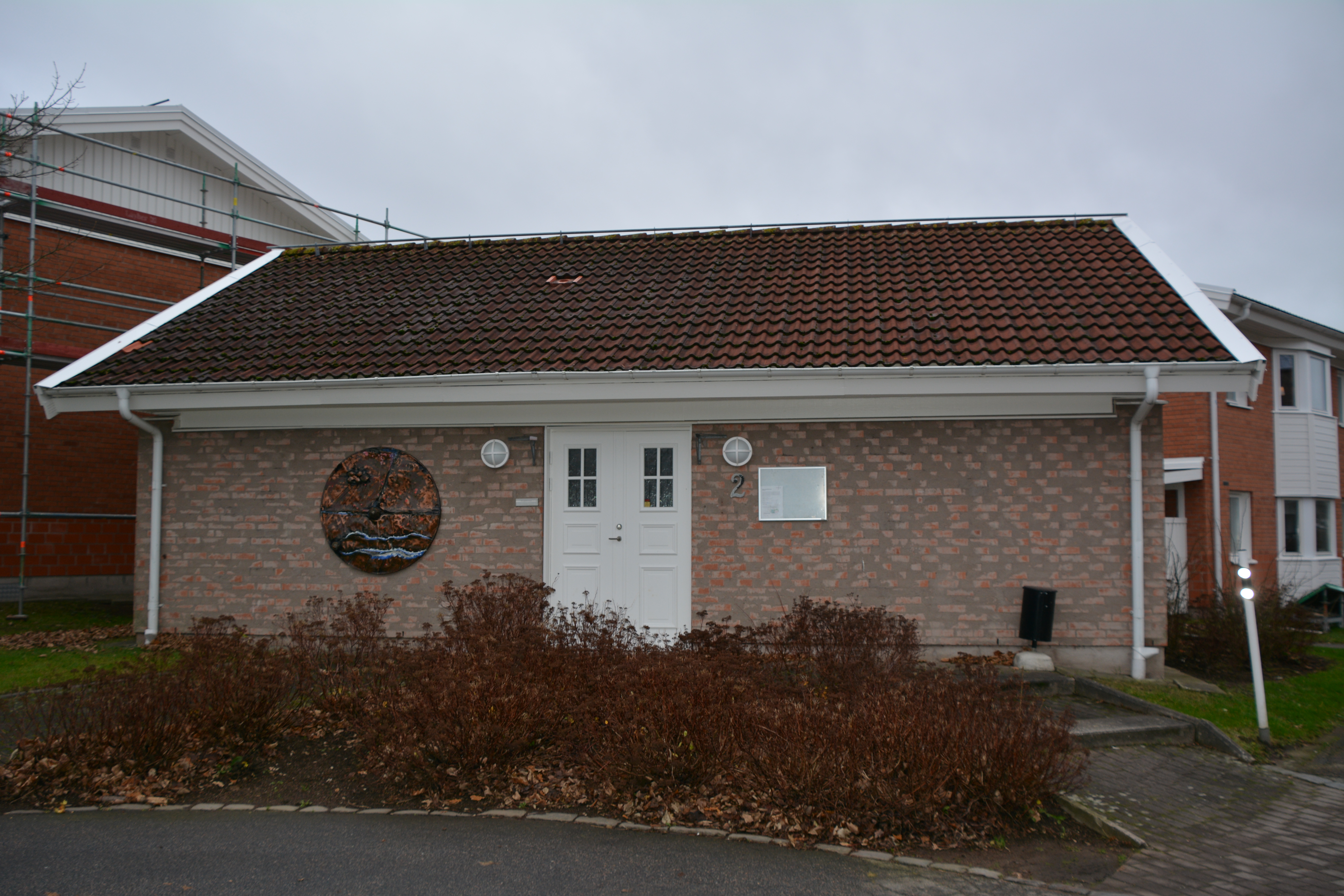 Administrationshus i Sofieberg, Halmstad, med fasadskulptur av Jan Åberg